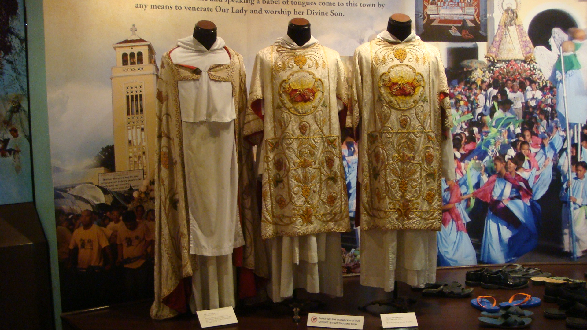 Pair of ornately embroidered Dalmaticas & Capa pluvial[1] (worn by priests for processions, benedictions, late 1800s, early 1900, Our Lady of Manaoag museum, Philippines